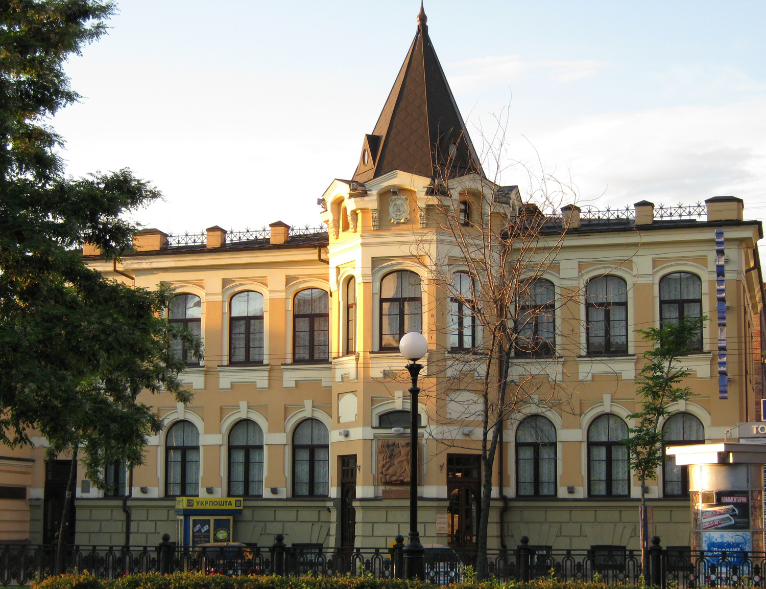 Central post office of Dnipropetrovsk.